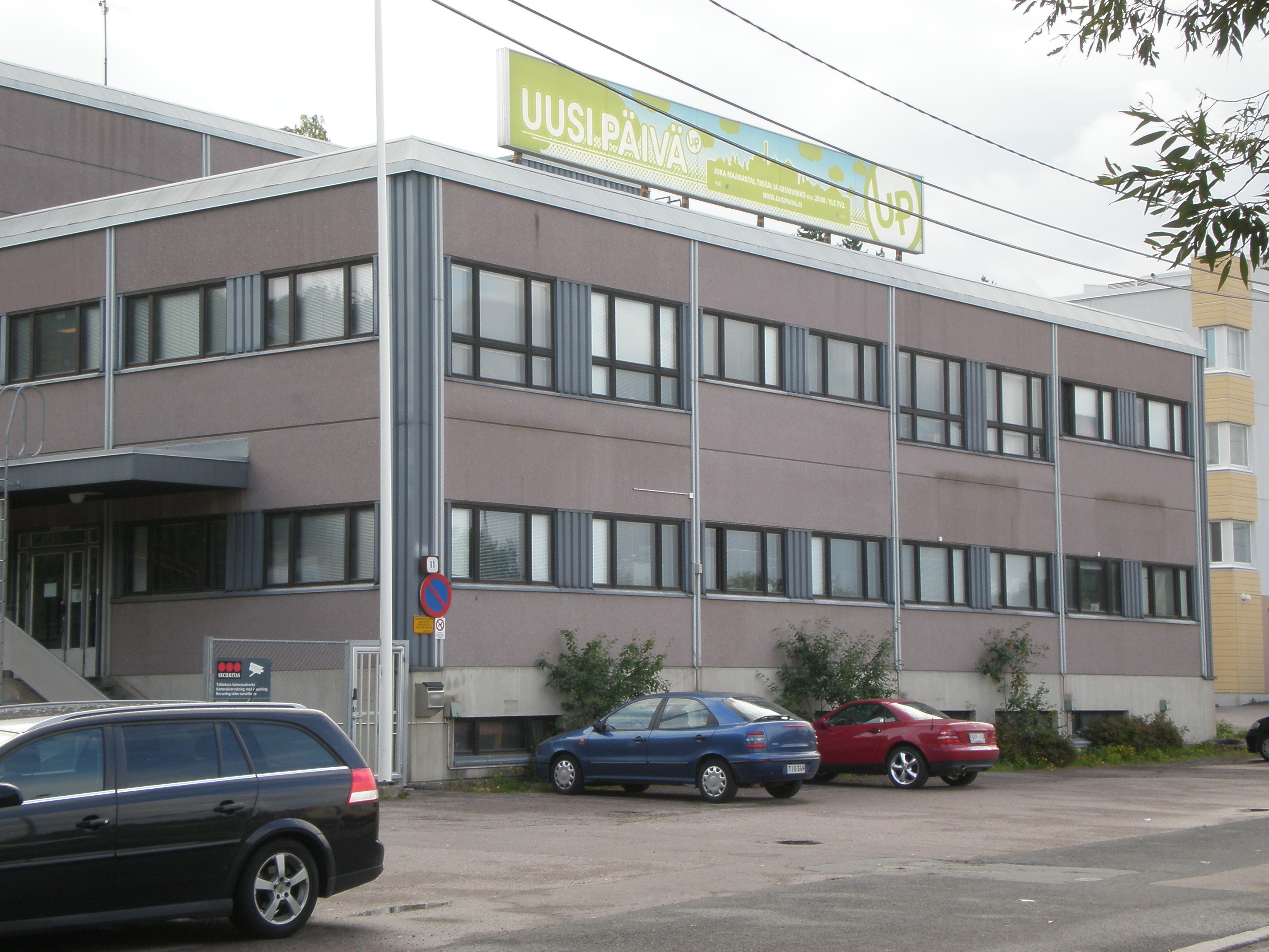 Old office building that is now studio where Finnish tv series Uusi Päivä was shot from 2010 to 2015